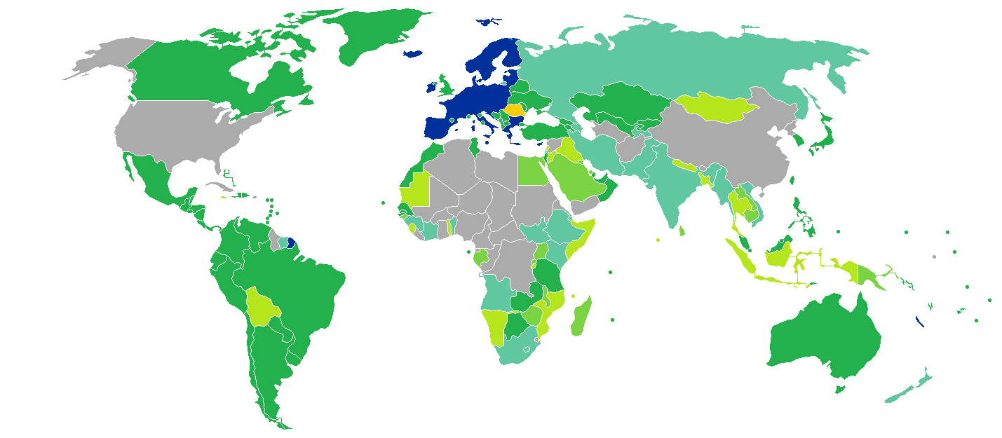 Visa requirements for Romanian citizens Romania Freedom of movement Visa not required Visa on arrival eVisa Visa available both on arrival or online Visa required prior to arrival